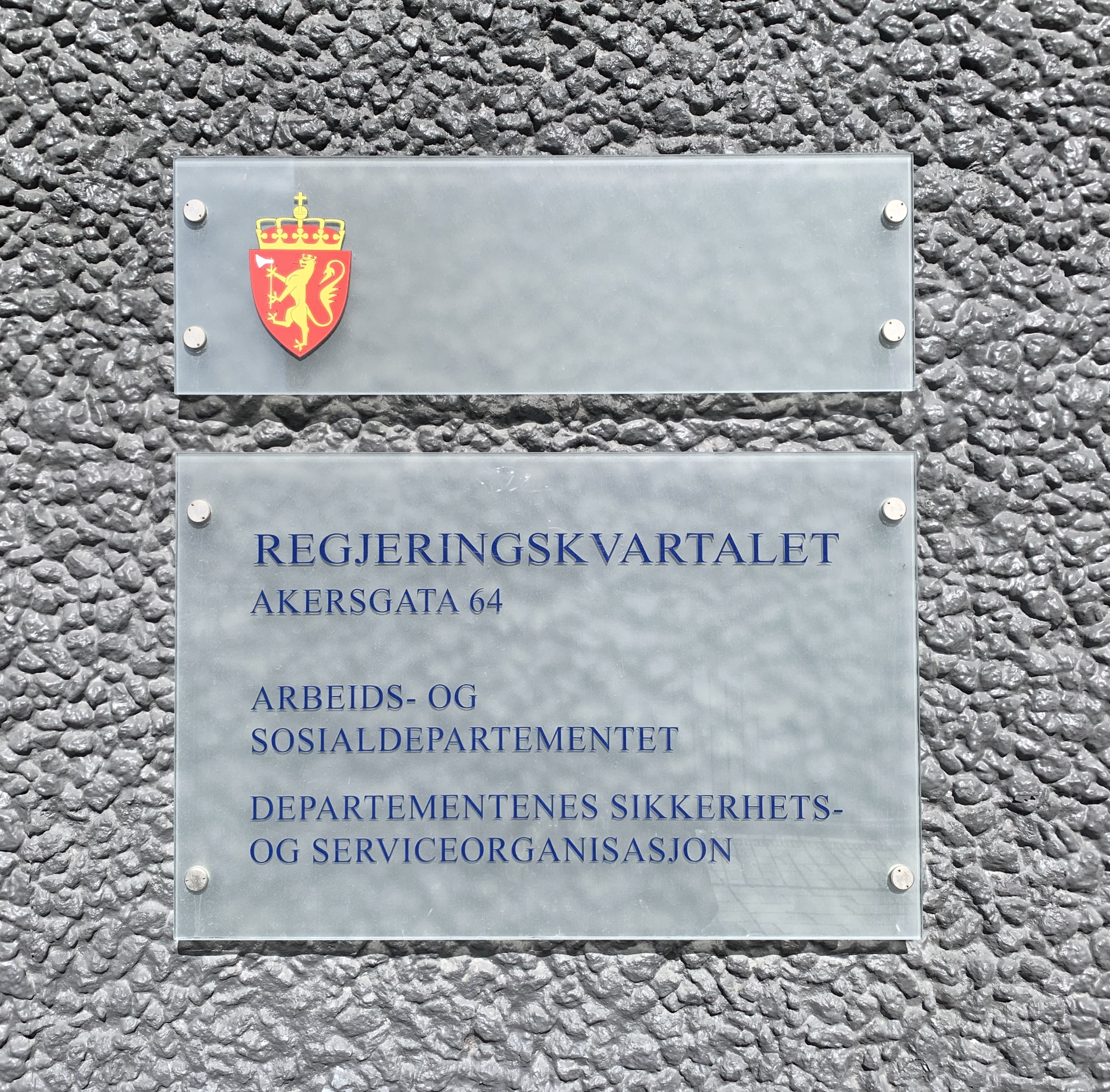 Sign for Norwegian Government District, Akersgata 64, Oslo, with Ministry of Labour